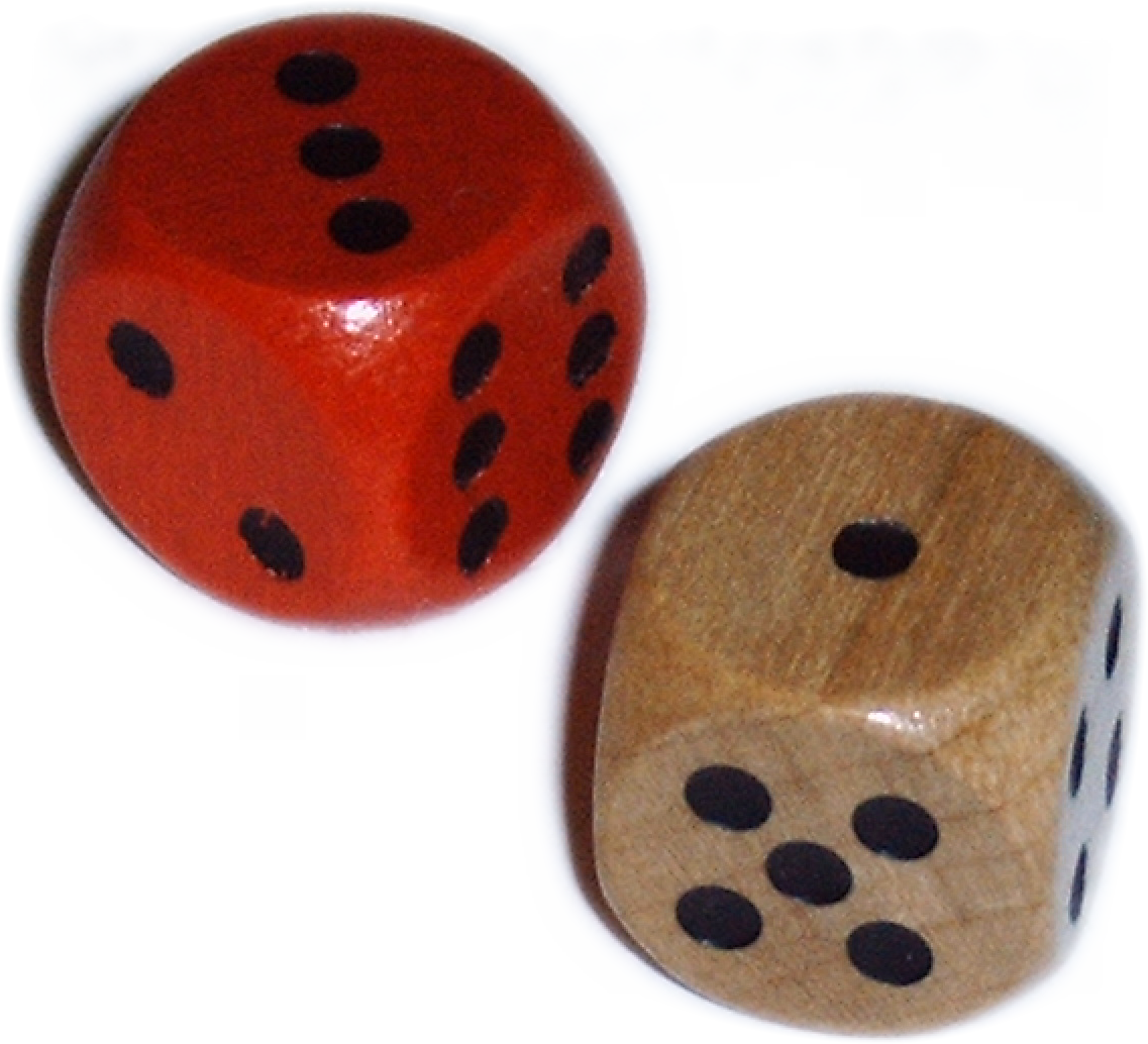 Source: Alexander Dreyer Two dice, all combination of eyes. Photographed by myself.